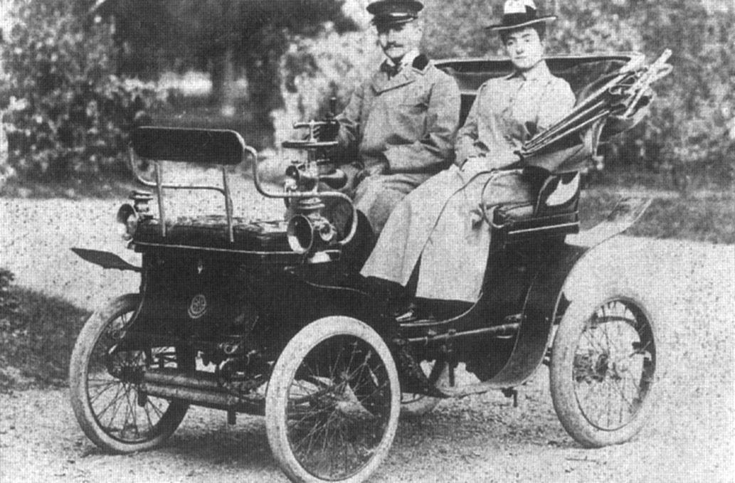 Romanian politician and landowner Grigore Gheorghe Cantacuzino and wife Alexandrina, photographed in their car. Published with caption describing theirs as one of Romania's first privately-owned automobiles. Automobile is identified as an early De Dion-Bouton Vis-à-vis; probably model D or L.